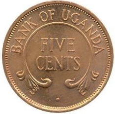 Ugandan 5 cents (1/100 of a shilling).